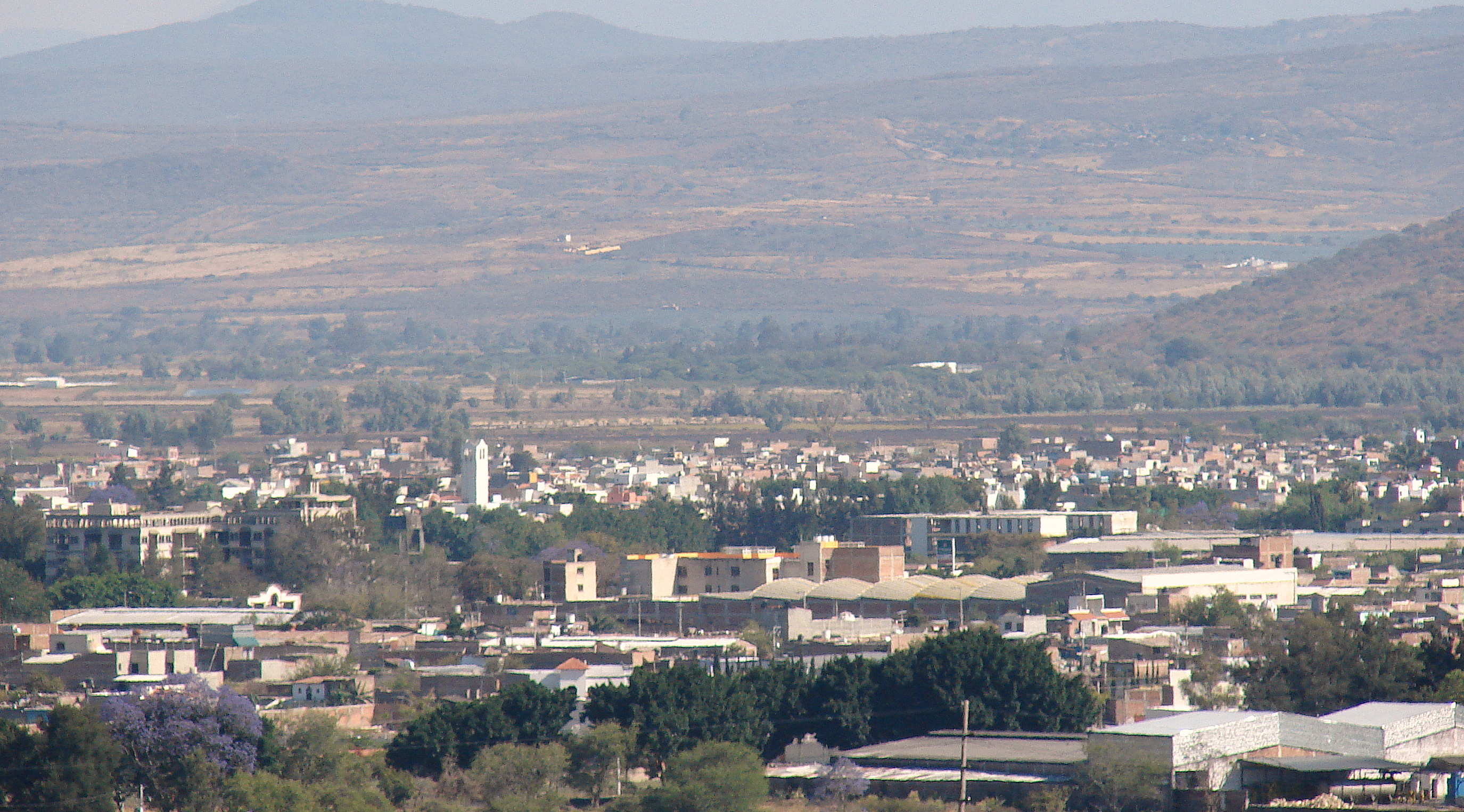 Overview of Sahuayo, seen from the road Chapala-Jiquilpan, in the state of Michoacan, Mexico.